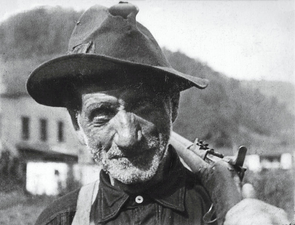 After the Battle of Blair Mountain in 1921 the union miners surrendered to the federal troops and gave them their weapons. Coal miner stands with his rifle over his soldier.